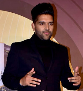 Guru Randhawa at the launch of MTV Unplugged Season 8